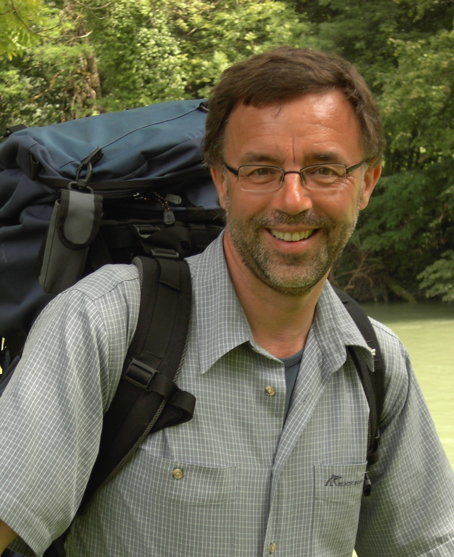 own file